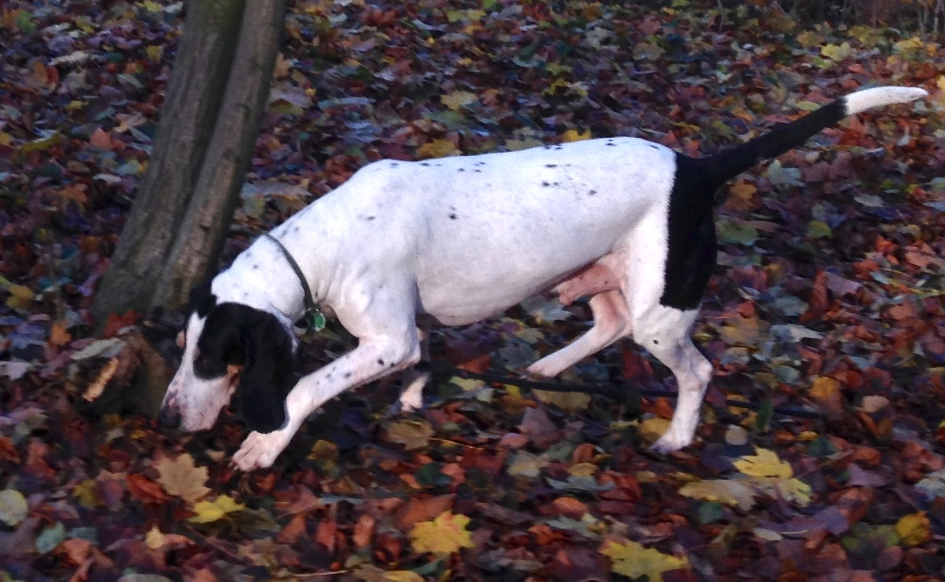 Ariegeois dog